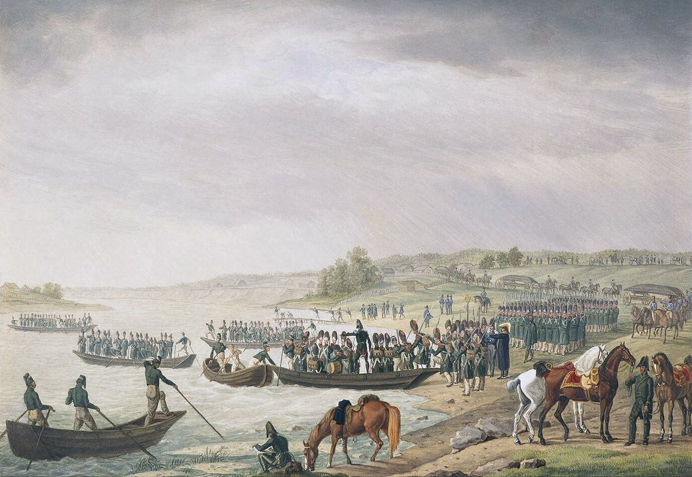 Italian Corp of Eugene Beauharnais Crossing the Niemen on 30 June 1812. By Albrecht Adam. Hermitage, Department of Western European Fine Arts. Oil and gouache on paper; 21x30 cm.